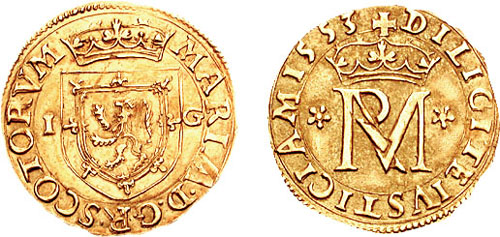 Scotland. Mary, Queen of Scots. 1542-1567. AV 22 Shillings (2.59 g, 5h). James, Earl of Arran, as Regent and Governor of Scotland. Dated 1553. MARIA• D• G• R• SCOTORVM, crowned coat-of-arms; I G at sides +DILIGITE IVSTICIAM 1553, crowned monogram; cinquefoils at sides. Burns 814(1) var. (obv. legend); SCBI 35 (Ashmolean), 987; SCBC 5396. EF, light toning, reverse struck with lightly rusty die. Ex Marian A. Sinton Collection (Triton III, 1 December 1999), lot 1630.